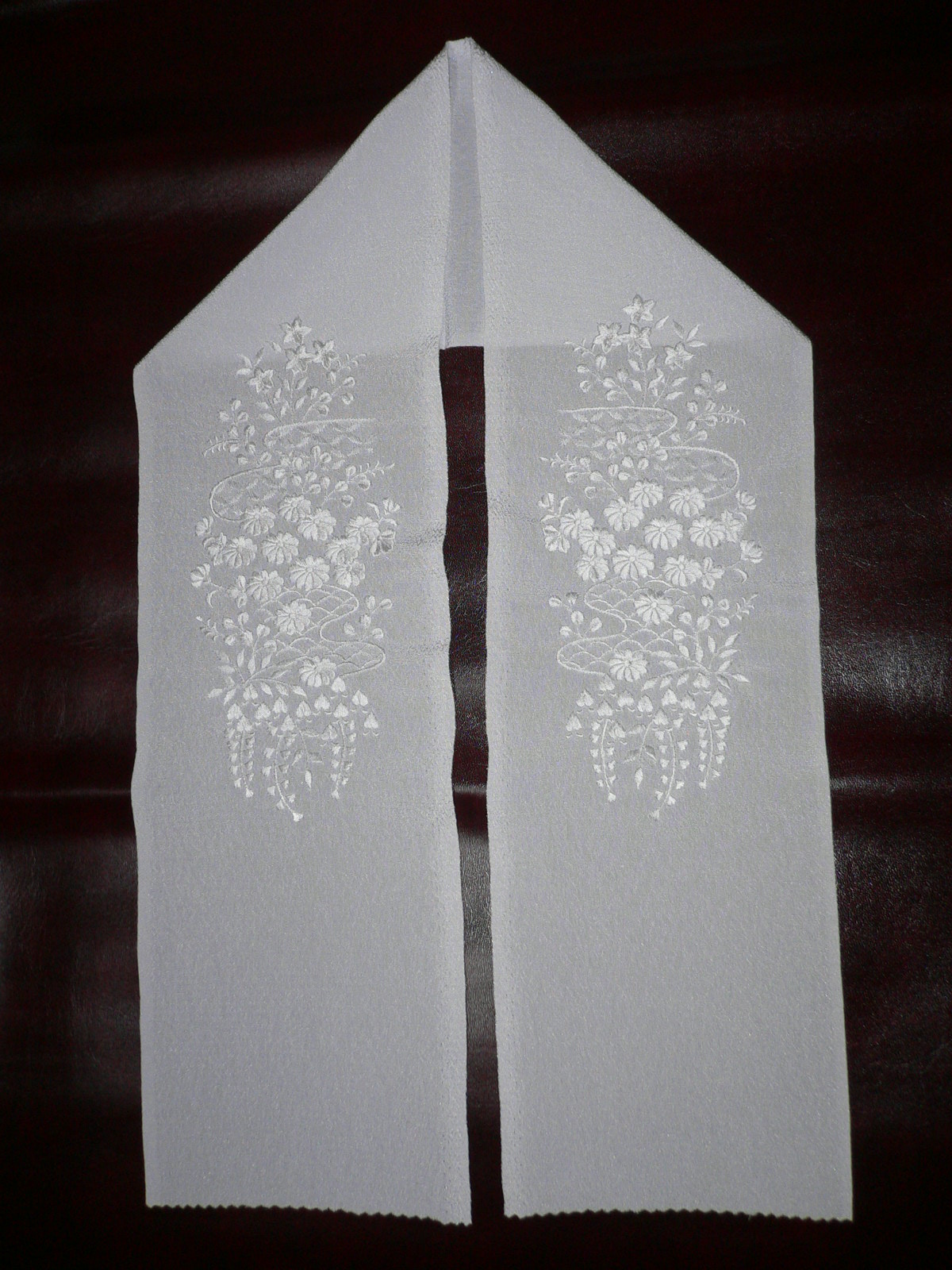 Haneri is a substitute collar to sew on the Juban which is underwear for the kimono.